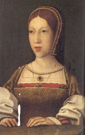 Princess Margaret Tudor. This portrait is often identified as Henry VII's eldest daughter, but the attribution is disputed by some.